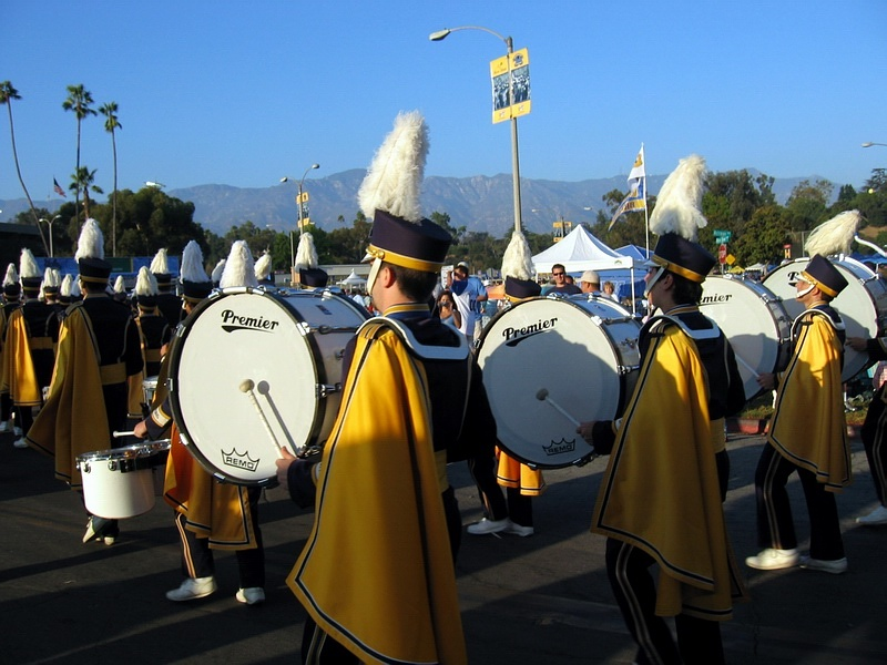 UCLA Marching Band in Pasadena for the game against Rice University.